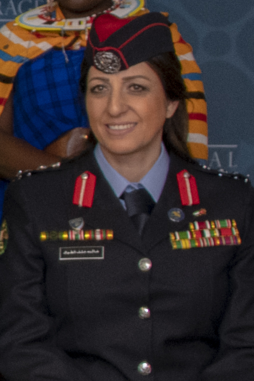 U.S. Secretary of State Michael R. Pompeo and First Lady of the United States Melania Trump poses for a photo with the 2019 International Women of Courage Awardees at the U.S. Department of State in Washington, D.C., on March 7, 2019. [State Department photo by Ron Przysucha/ Public Domain]